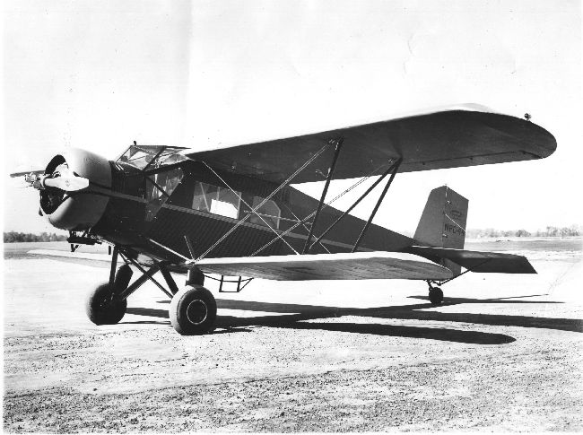 Chalres Babb Special Collection Repository: San Diego Air and Space Museum Archive